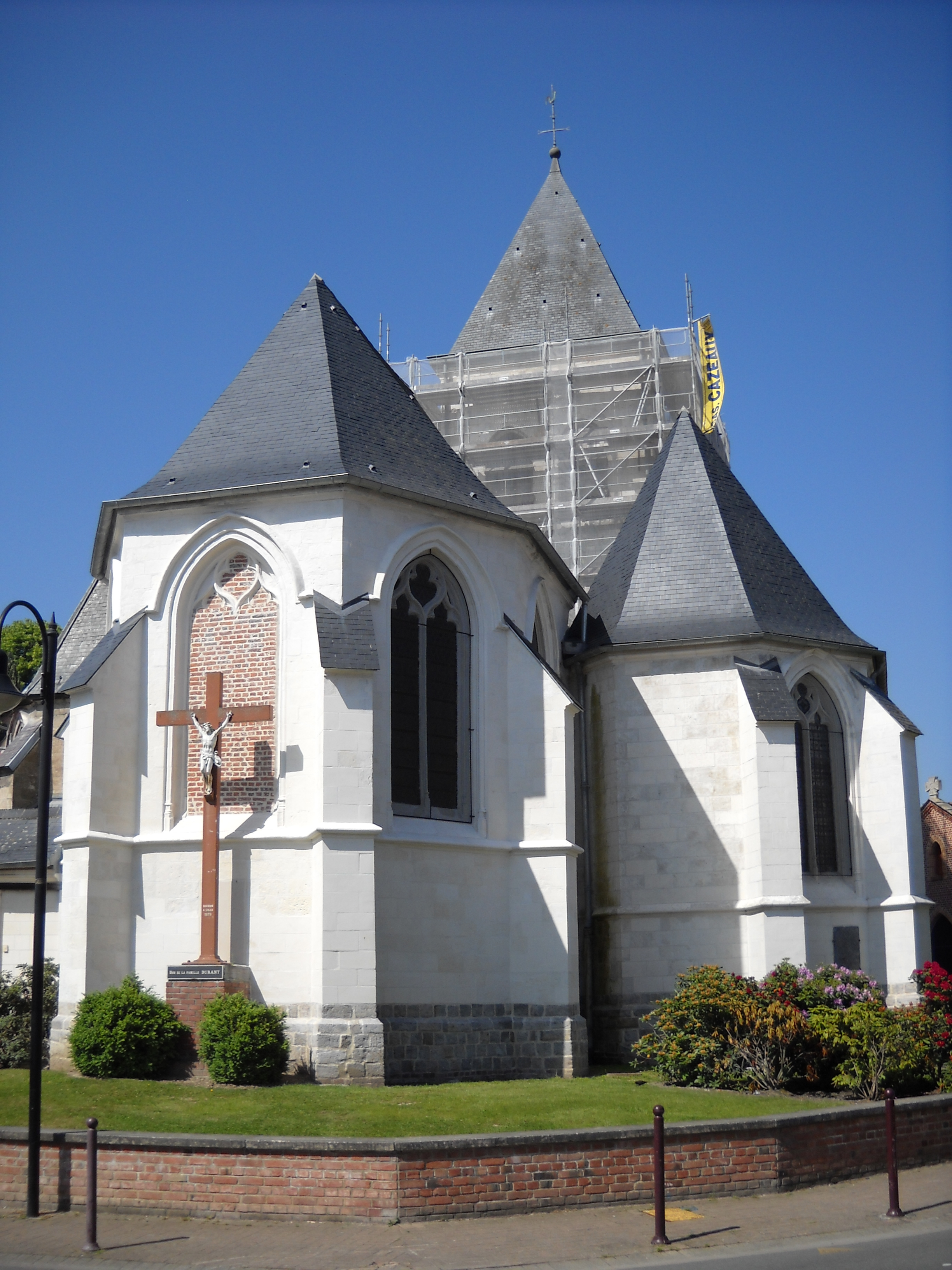 The church of Péronne-en-Mélantois, Nord, France.